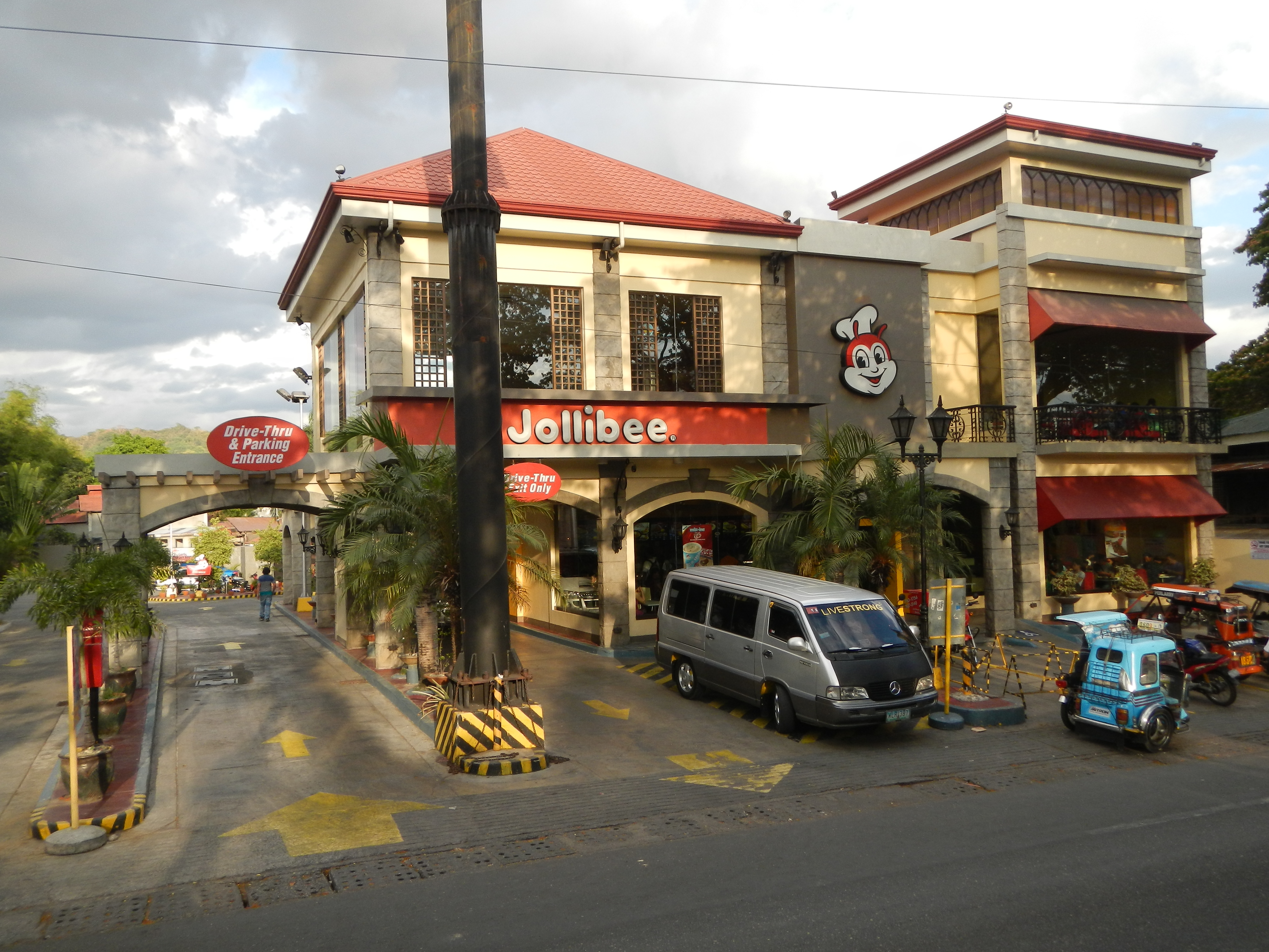 Pan-Philippine Highway scenery (Naguilian Bridge, along the new unfinished by-pass Bagulin-San Fernando City Road, in La UnionBauang-Naguilan-Bagulin Road scenery, landscapes - Naguilian Bridge, the Processions for the Station of the Cross in Naguilian, to Bauang and finally to Agoo, La Union Town Proper, beside Damortis, Rosario and Santo Tomas, La Union Province).